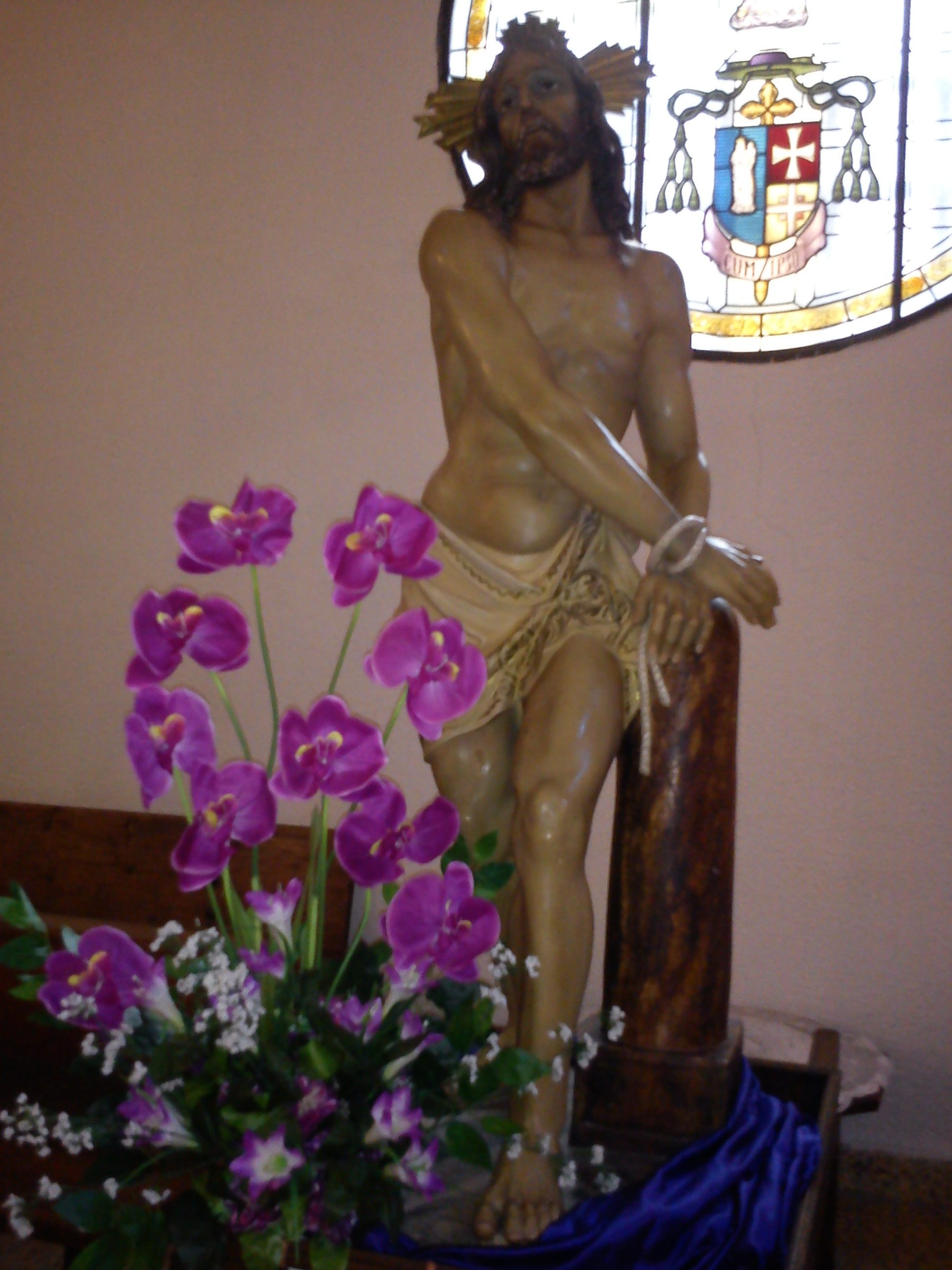 Ecce Homo